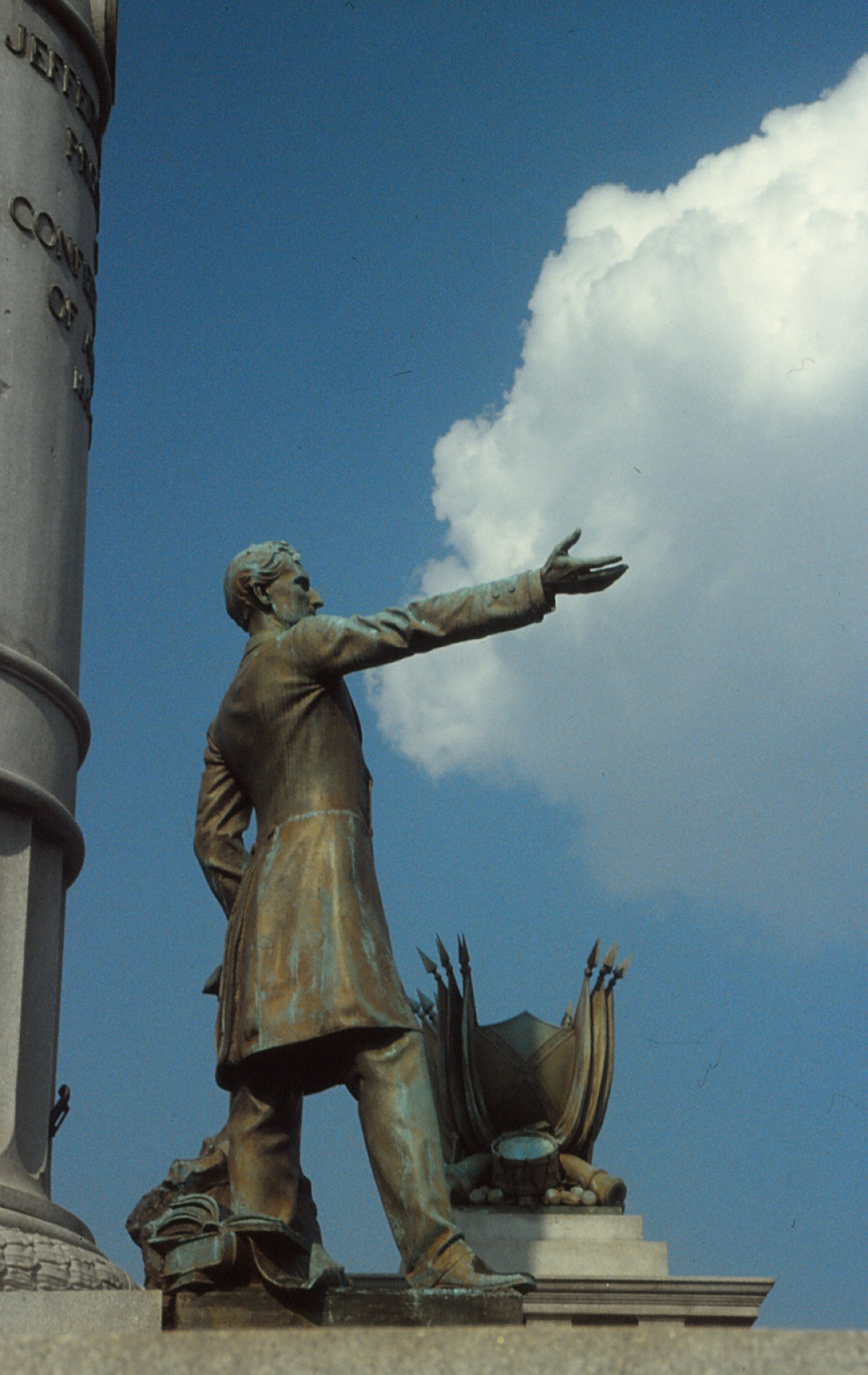 Monument Avenue, Edward Valentine, sc. 1907